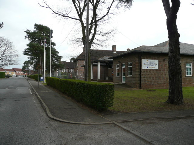 The Royal Logistics Corps Museum An unassuming building on the Deepcut estate.